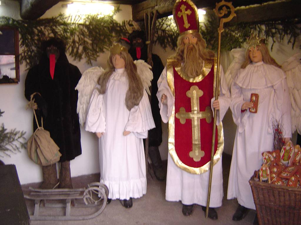 Costumes of Mikuláš (St Nicholas), angels and devils in open air museum in Přerov nad Labem, Czech Republic